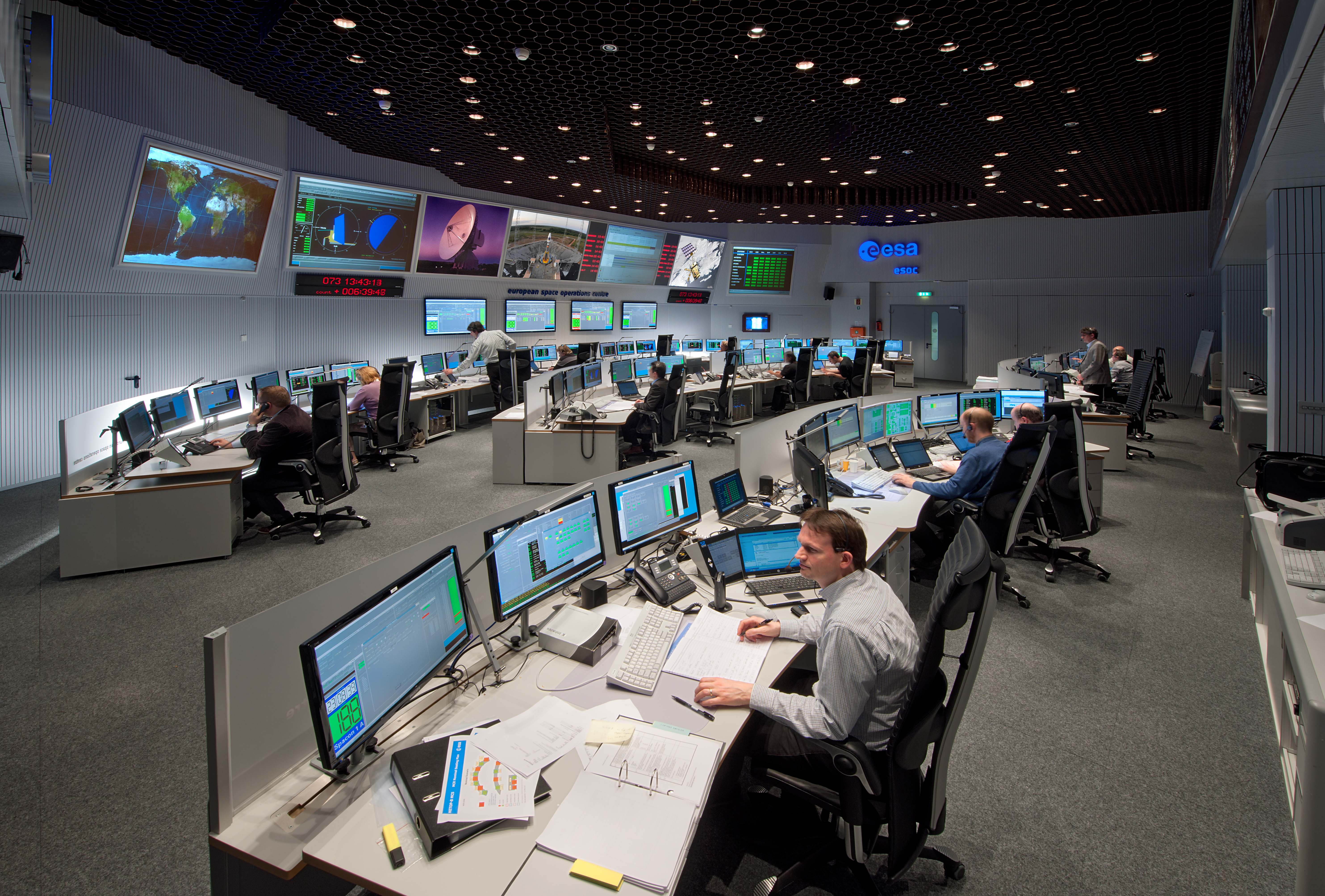 ESOC serves as the Operations Control Centre for ESA missions, and hosts ourMain Control Room (shown here), combined Dedicated Control Rooms for specificmissions and the ESTRACK Control Centre - which manages our worldwide groundtracking stations. ESOC also hosts facilities for satellite communications,navigation, networks and other special functions.